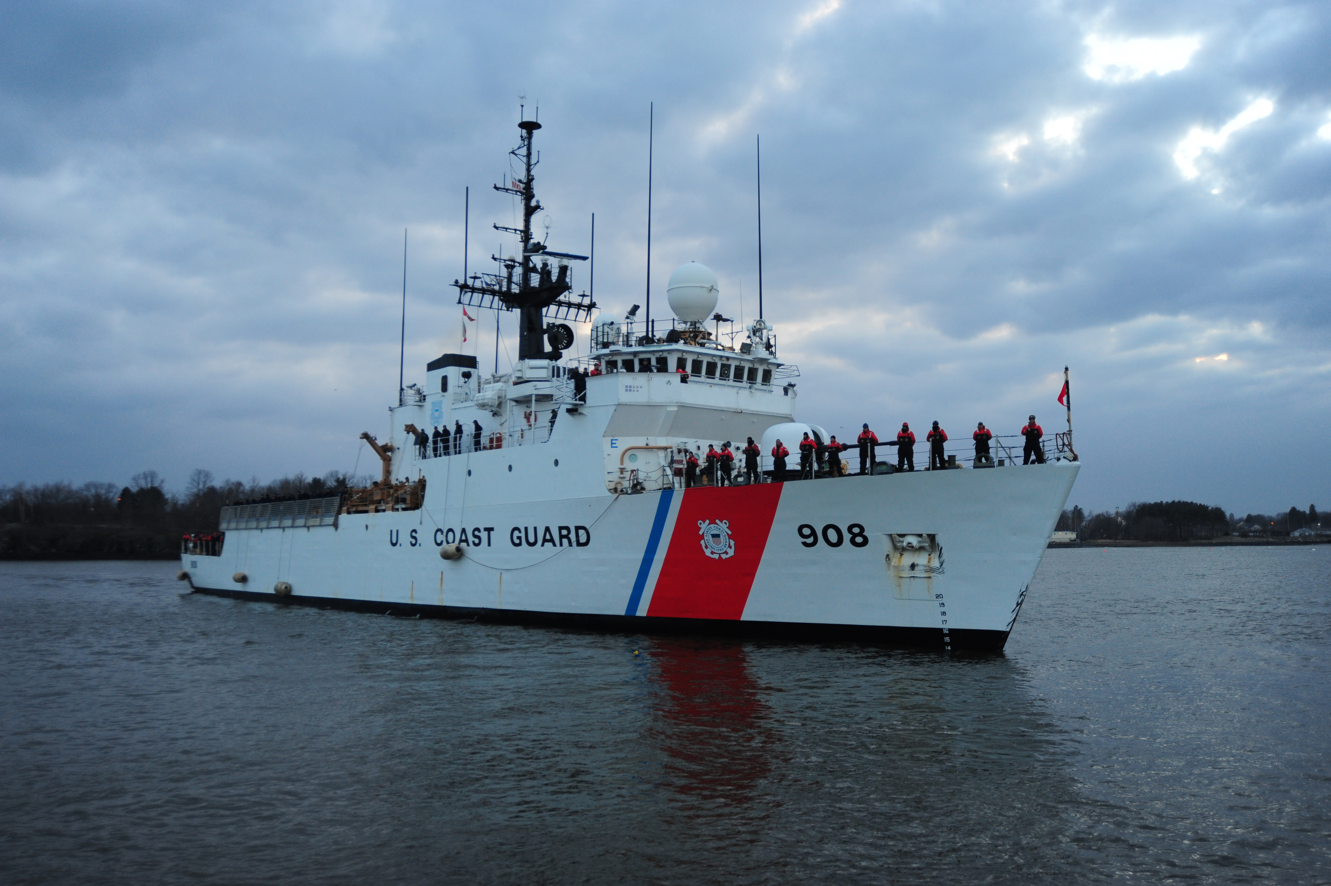 KITTERY, Maine. Crewmembers aboard the Coast Guard Cutter Tahoma stand on the bow as the cutter enters port at the Portsmouth Naval Shipyard, Fri., Feb. 26, 2010. The Tahoma crew returned from a 56-day deployment to the Caribbean, which included providing support to Haiti after the Jan. 12 earthquake.